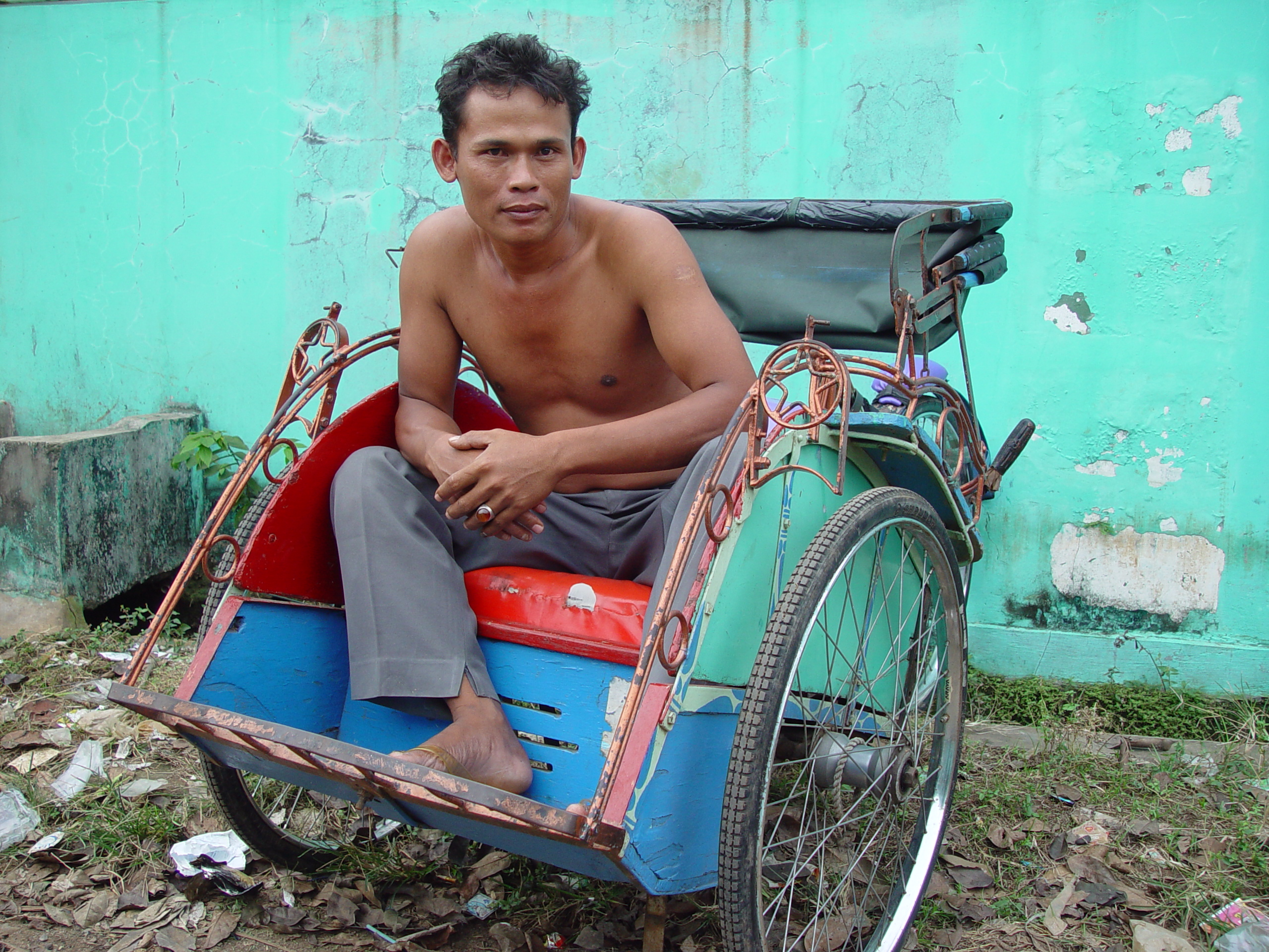 Becak driver, just outside of the city of Jakarta Indonesia.